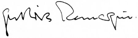 Signature of Erich Maria Remarque